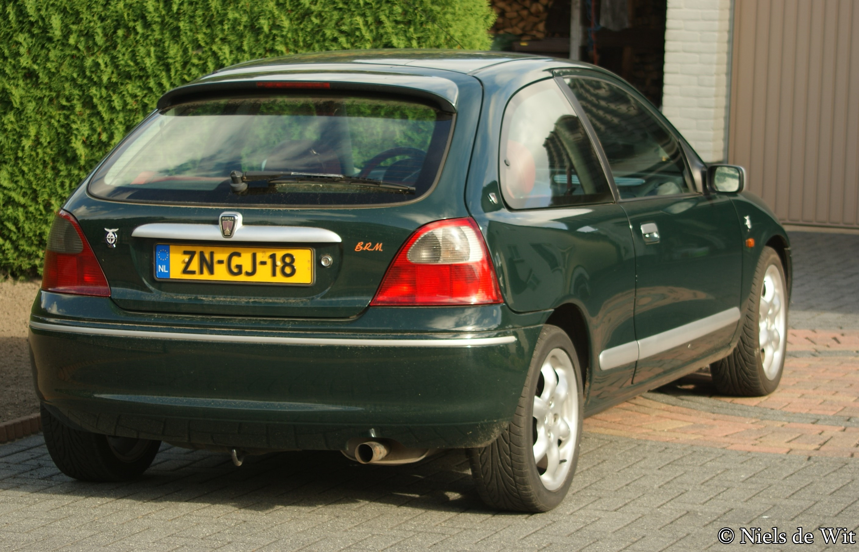 ZN-GJ-18 Only 1.245 BRM's made!